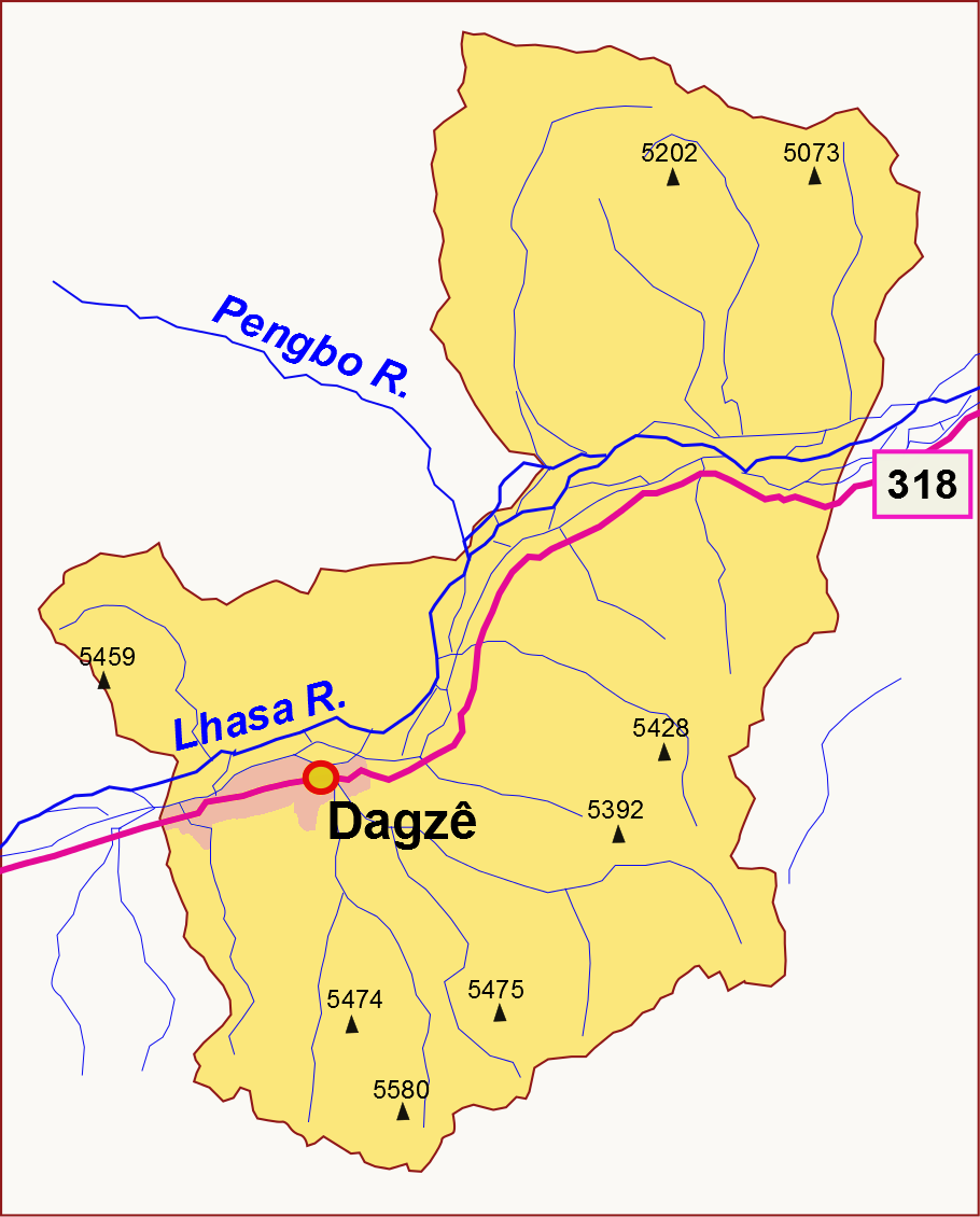 Sketch map of Dagzê County, Lhasa, Tibet